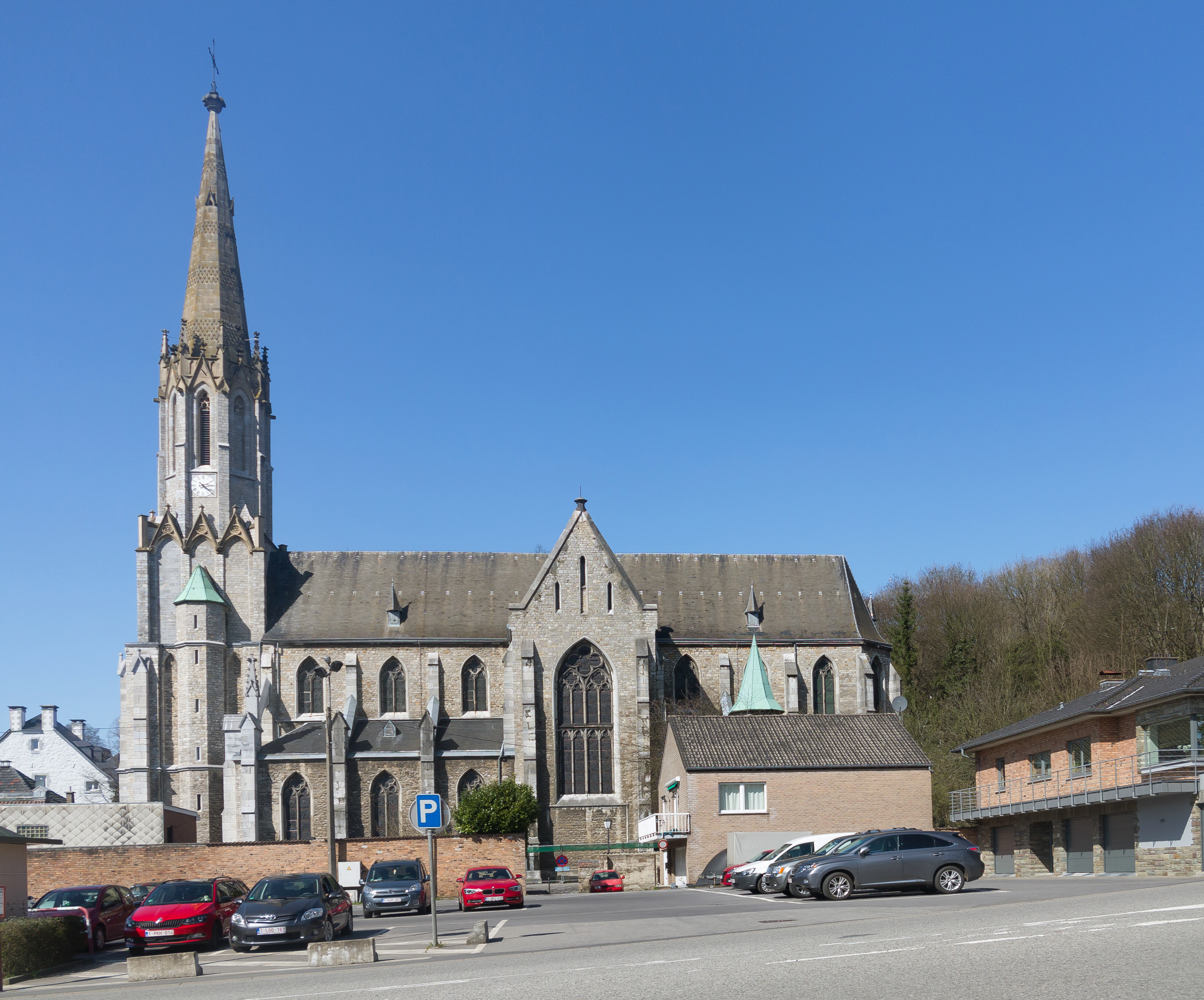 Eupen, church: die Sankt Joseph Kirche